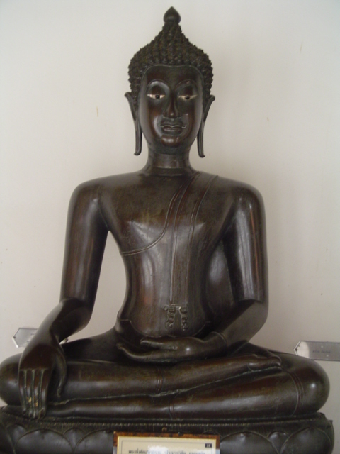 "An image of the Buddha sitting with one leg above the other in the attitude of subduing mara, in the style of the chieng saen period found at Wat Phra Bat Pha, Lamphun." (statue caption)